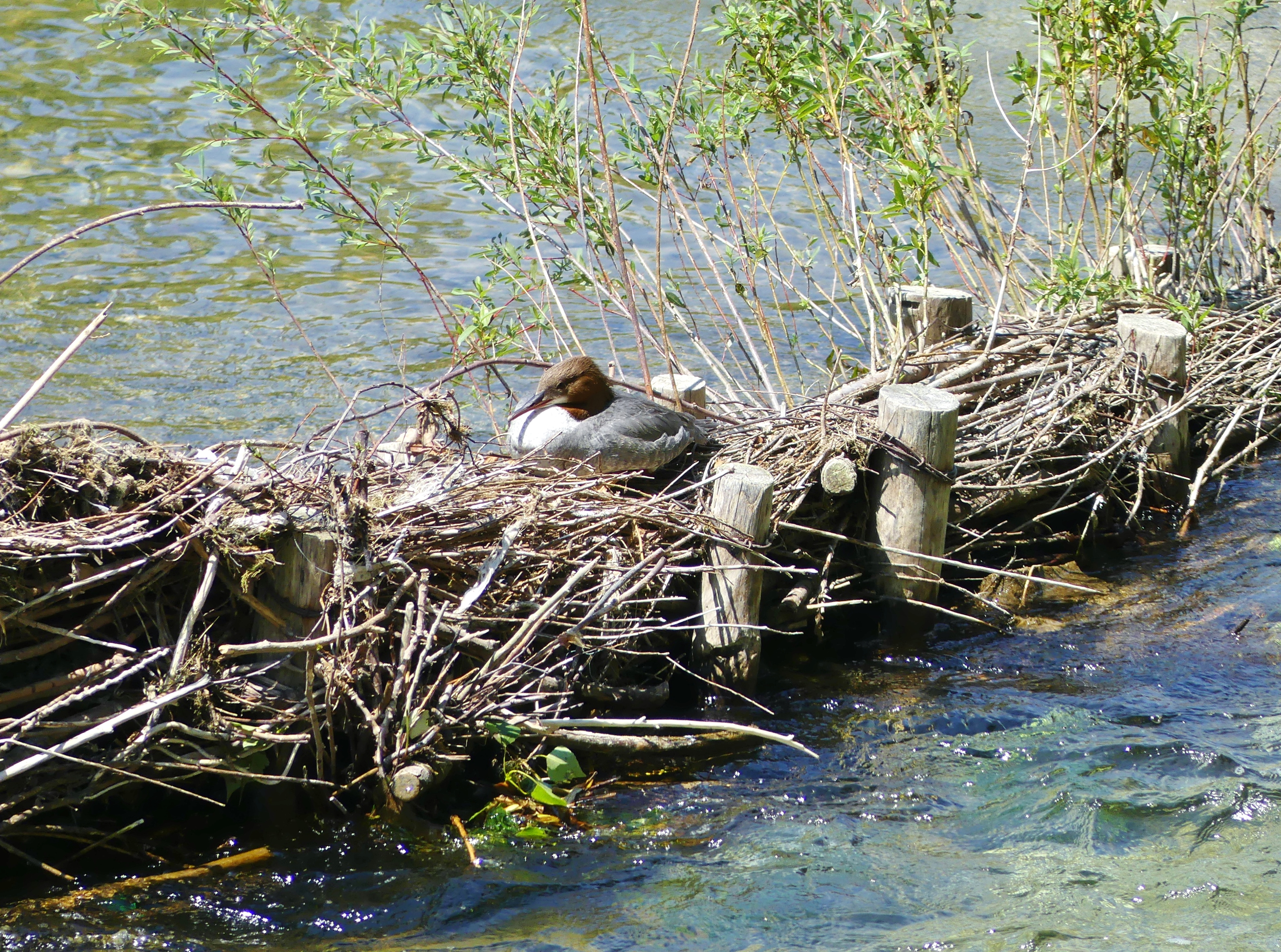 Sight, in spring, of a Common merganser having a rest on a green fascine of the river Leysse, in Chambéry, Savoie, France.